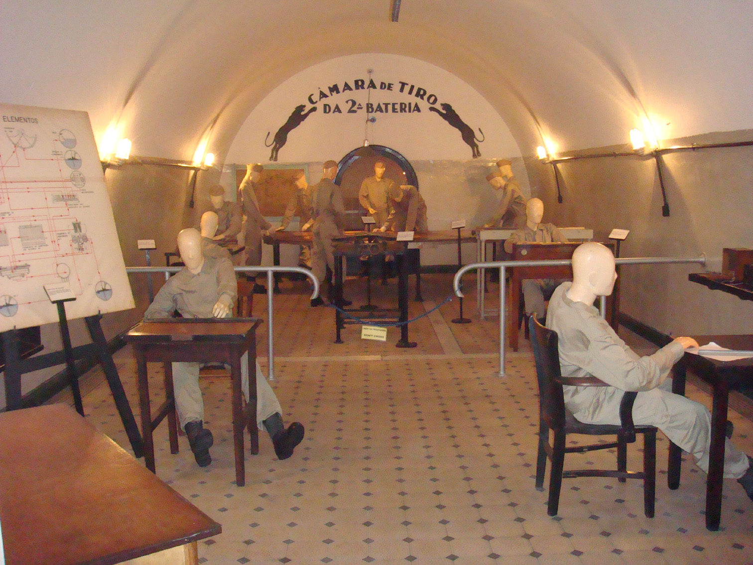 Artillery room of Copacabana Fort, Rio de Janeiro, Brazil